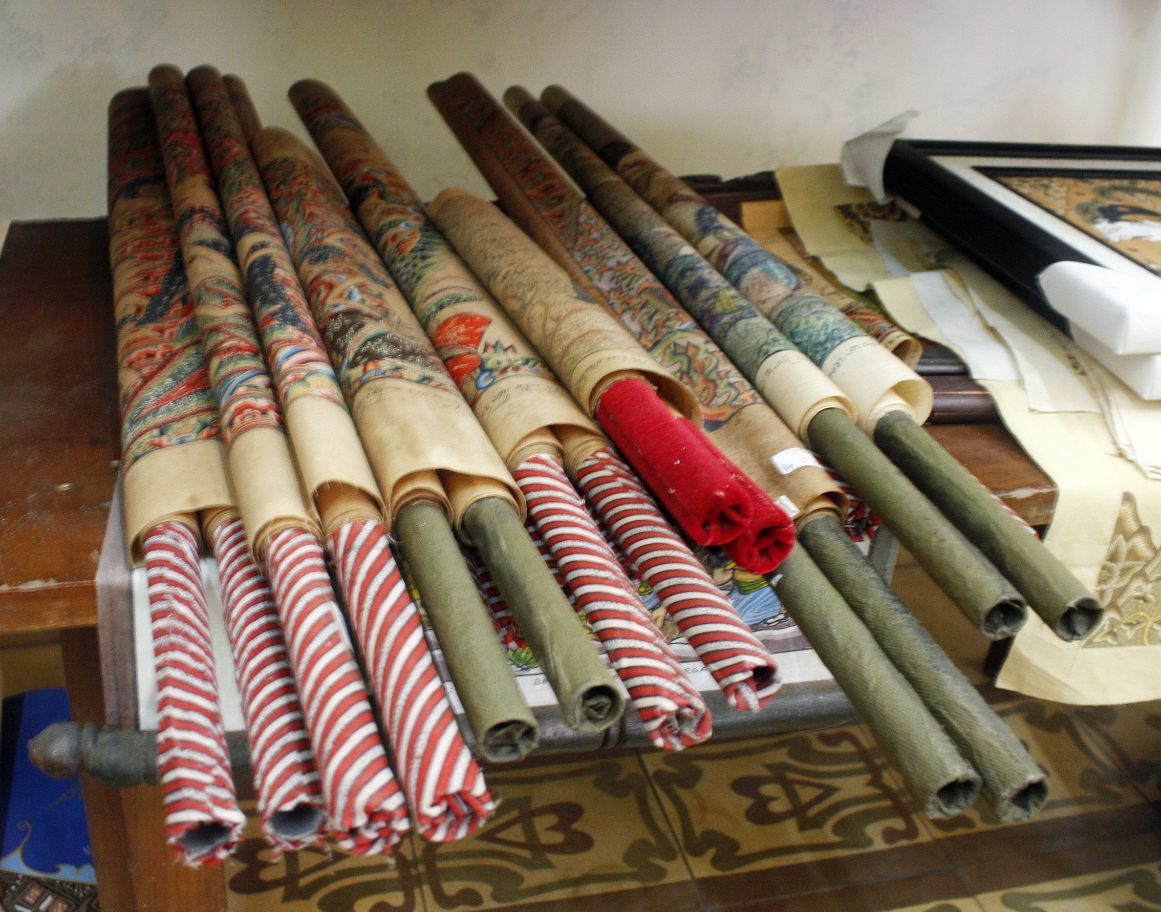 The scrolls of Wayang Beber (screen wayang) drawed upon fabric or paper and scrolled to depict the scene of a wayang story. Mangkunegaran Palace, Surakarta, Central Java, Indonesia. Unknown